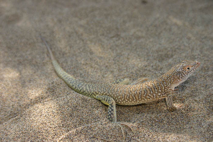 A photograph of Eremias kavirensis taken in the Maranjab Sand dunes of Kashan, Isfahan, Iran.